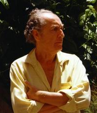 Photograph